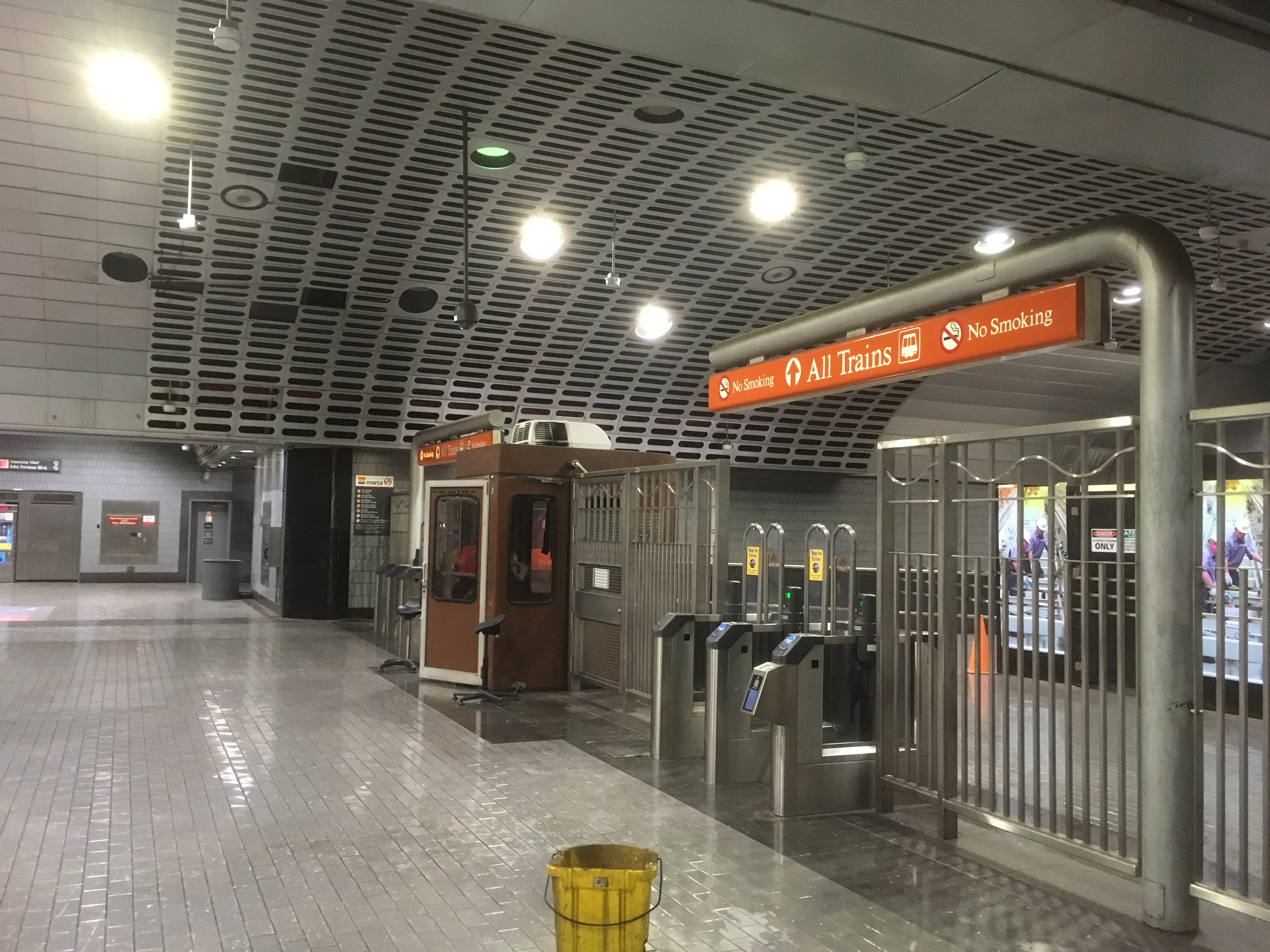 North Turnstiles at the Peachtree Center MARTA station in May 2019.